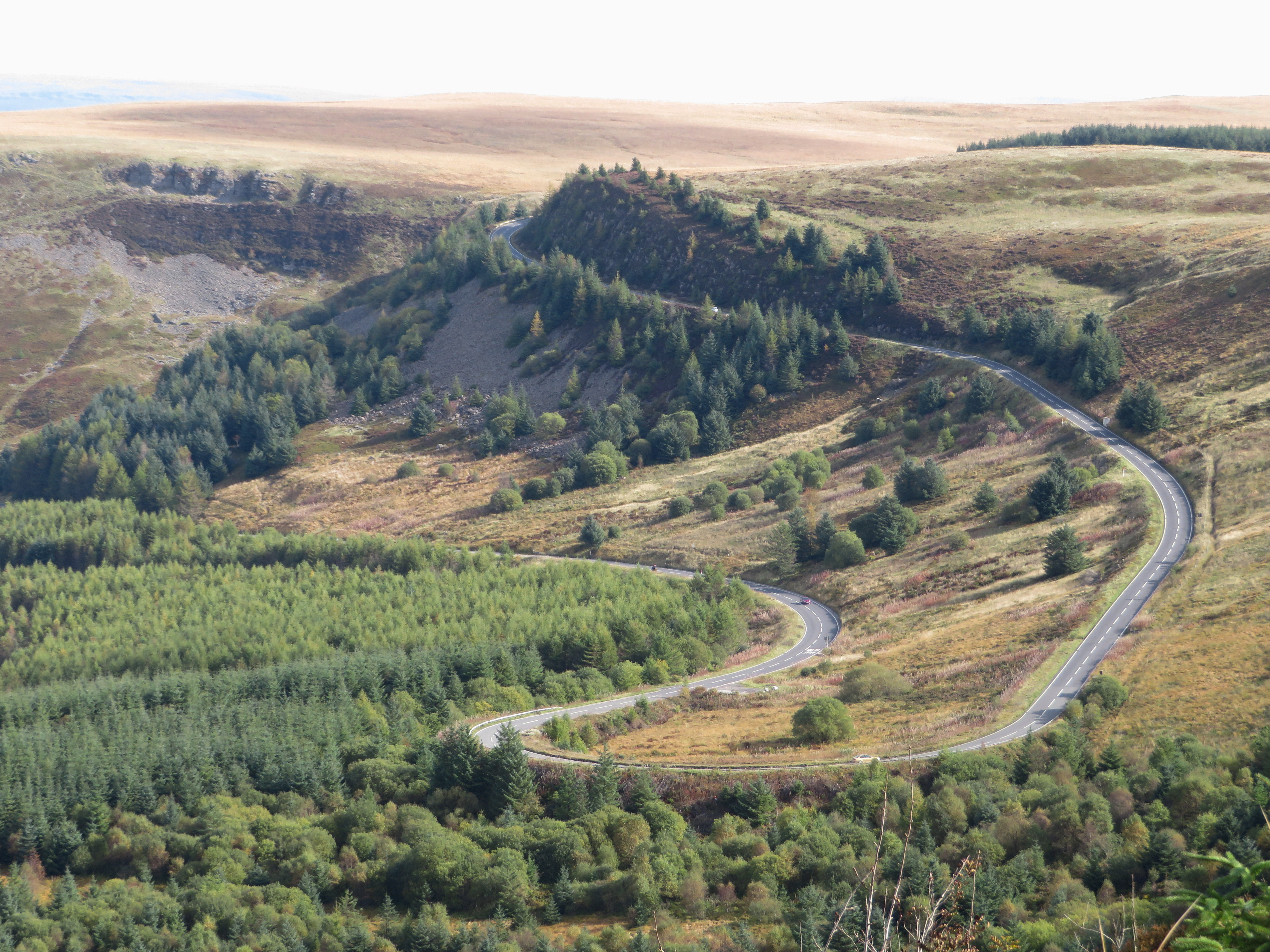 Hairpin bend on the A4061 Rhigos Mountain Road